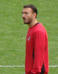 Steed Malbranque